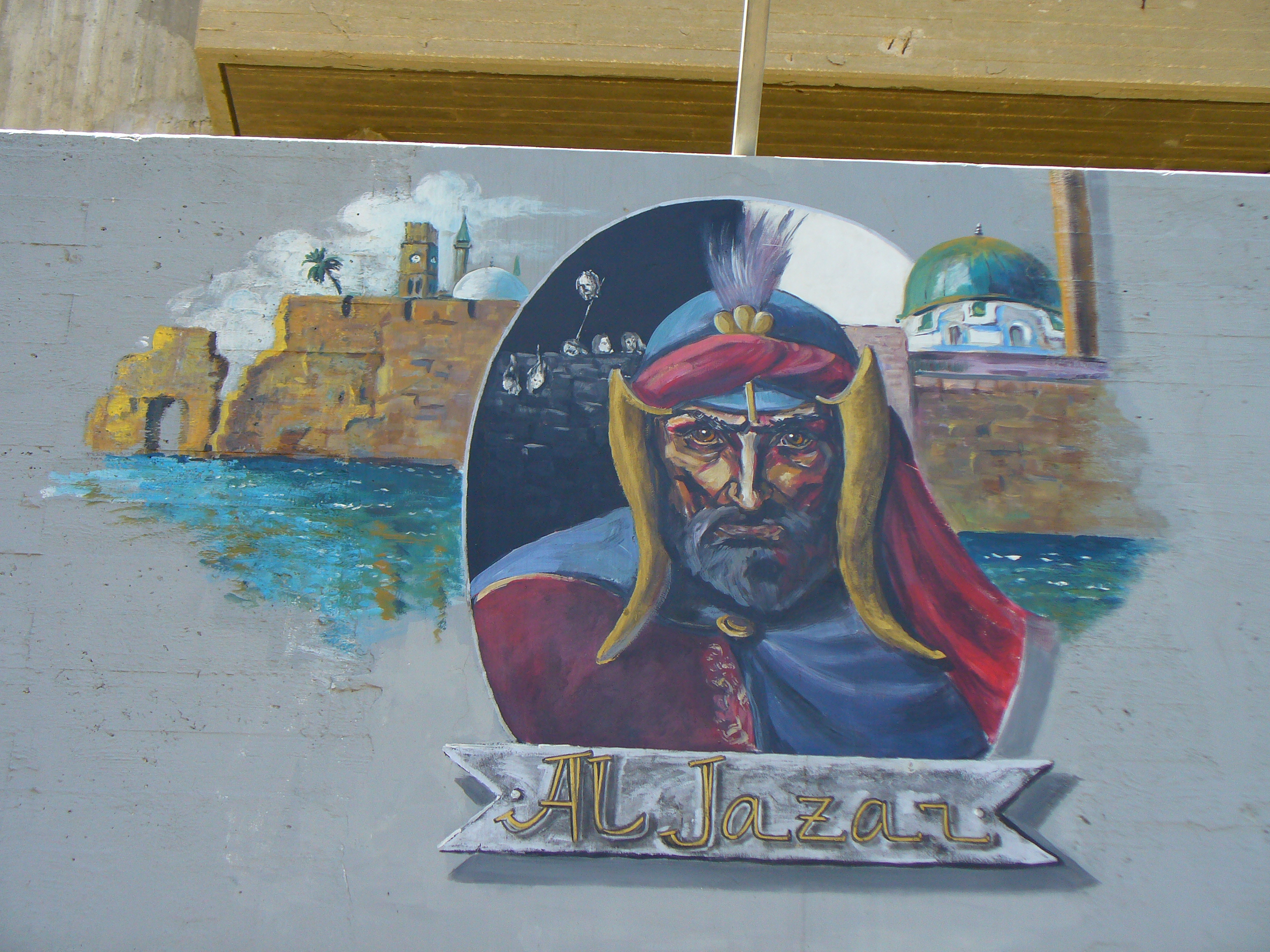 Wall painting of Jezzar Pasha, at the wall of Akko's Auditorium. Don't know the painters name though... More information (in Hebrew) about the paintings can be found here